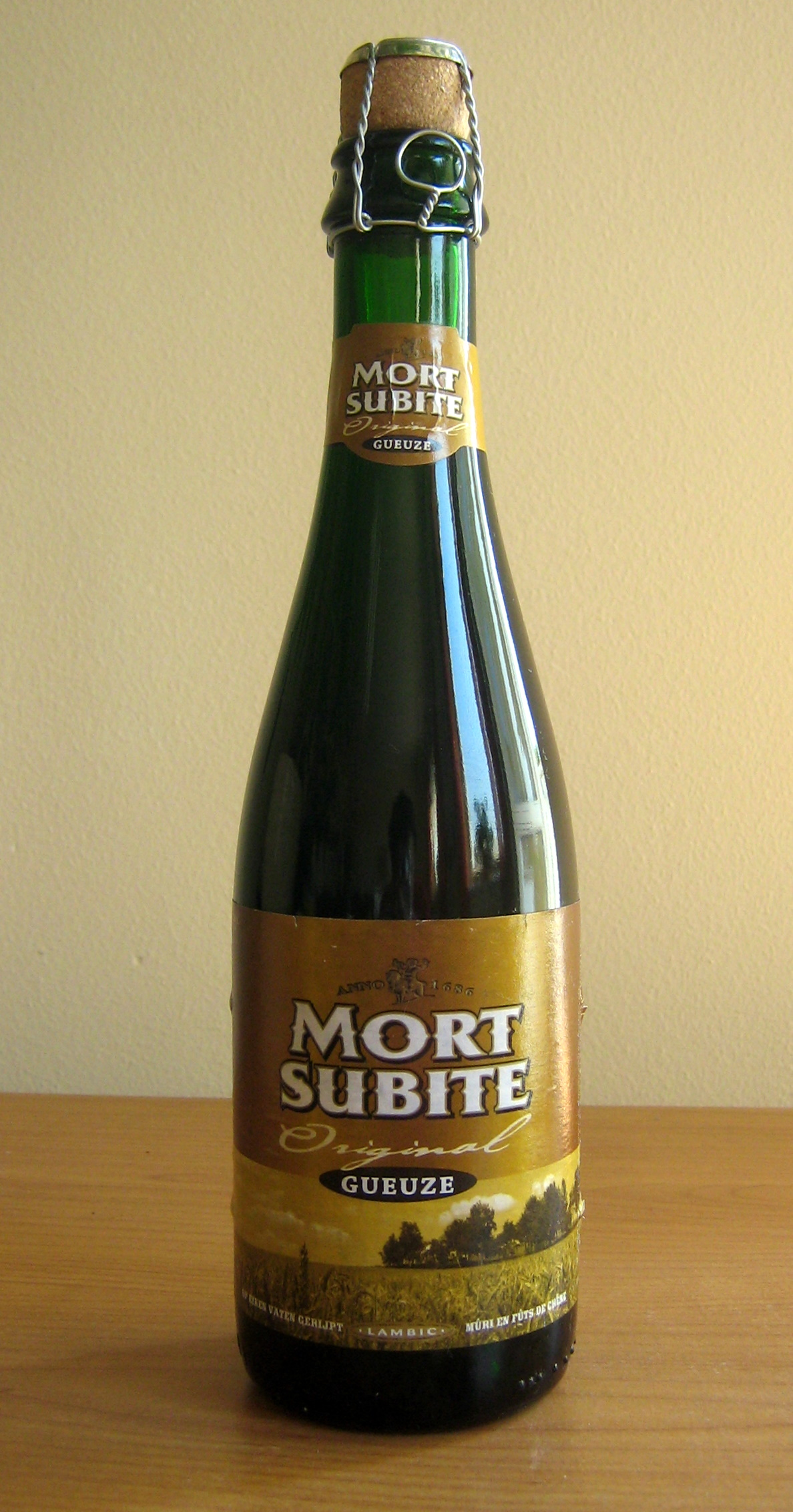 Mort Subite - Gueuze